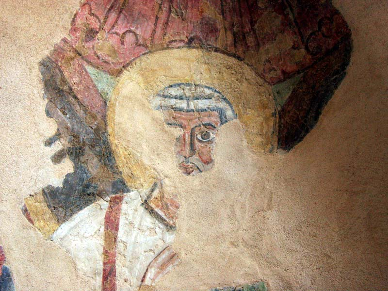 San Zeno church, Bardolino, Veneto, Italy